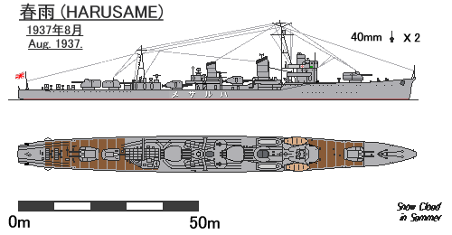 Figure of Imperial Japanese Navy destroyer Harusame, Shiratsuyu-class, in August 1937.